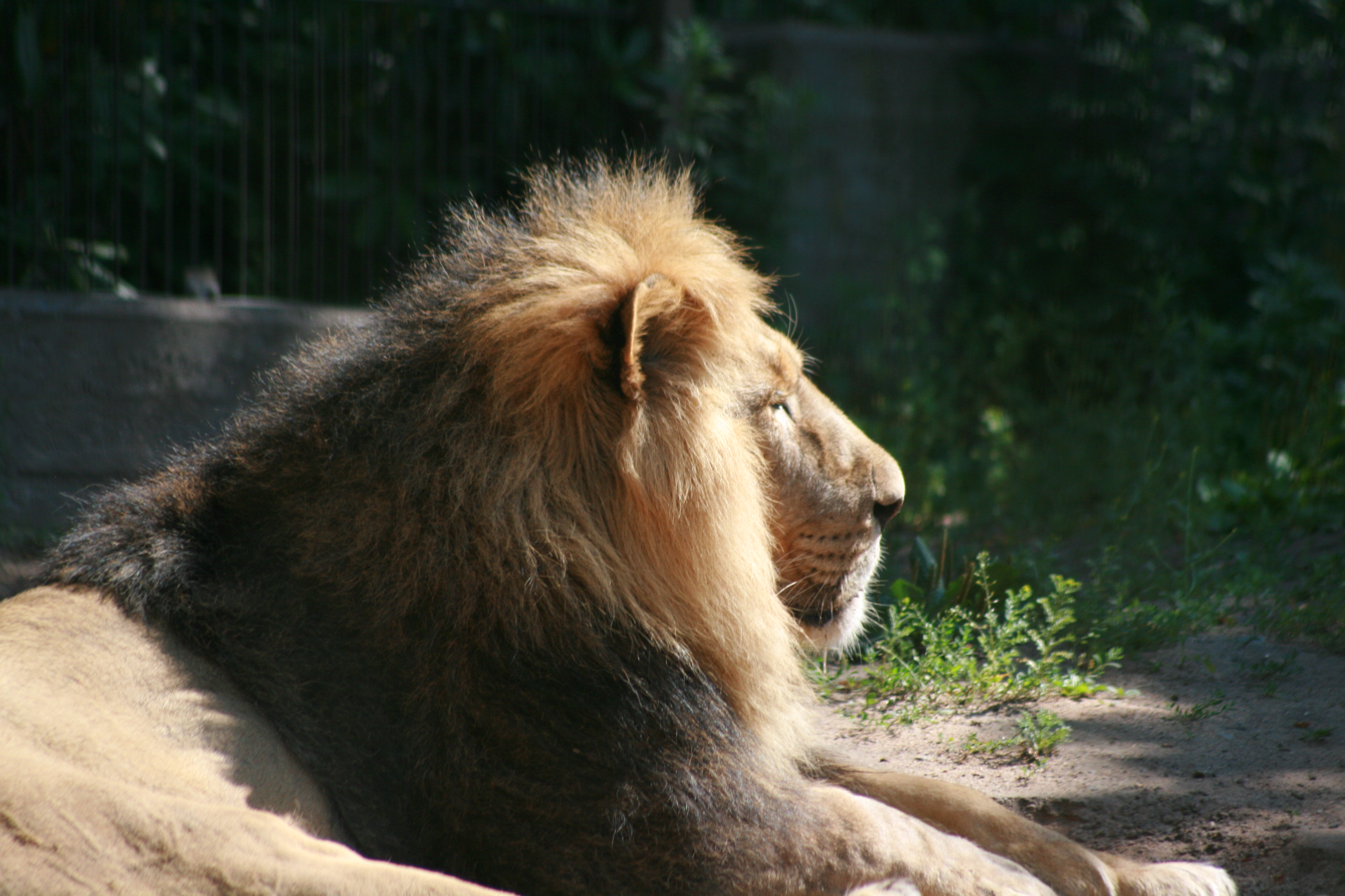 Adult male Asiatic lion